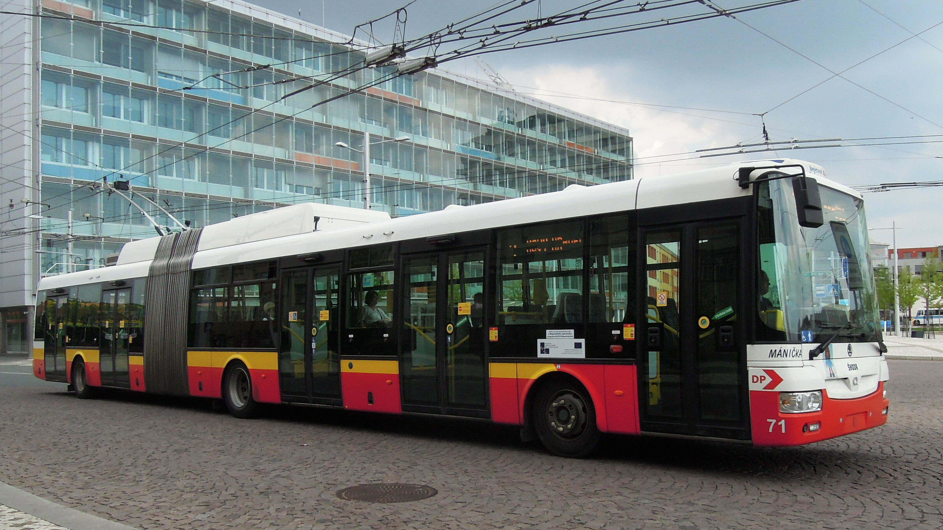 Trolleybus Škoda 31Tr SOR of Dopravní podnik města Hradce Králové in Hradec Králové , Hradec Králové Region, Czech Republic